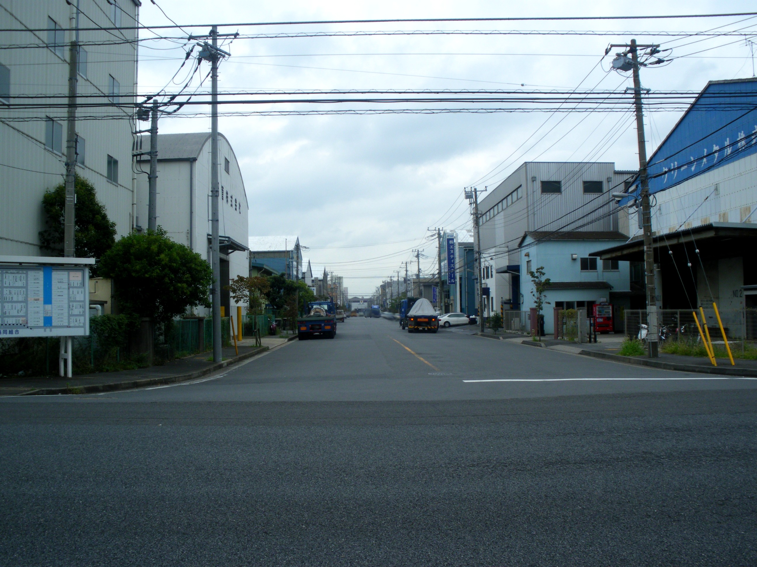 Industrial_estate of iron factories(Urayasu,Chiba)